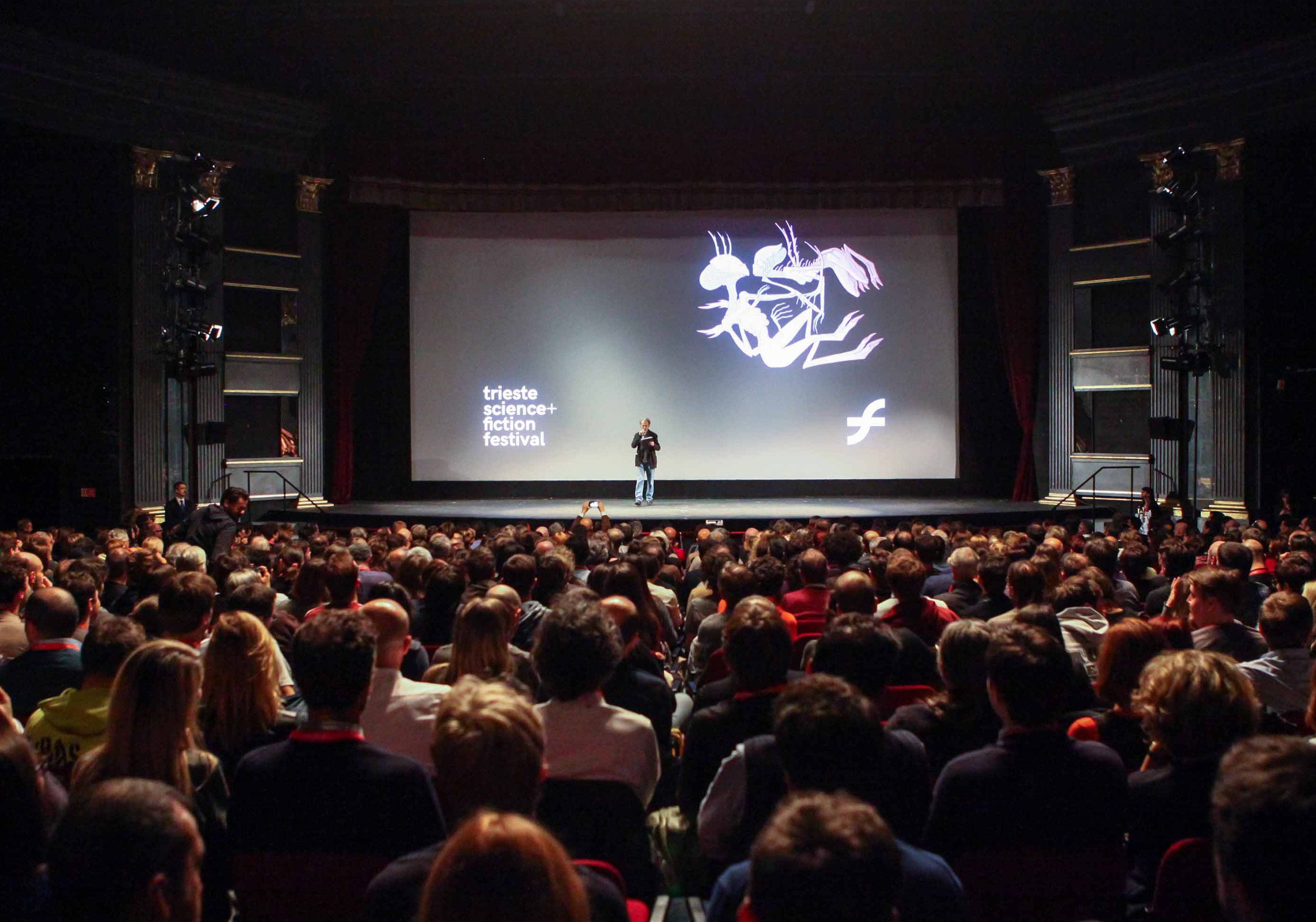 Opening ceremony of 2016 Trieste Science+Fiction Festival